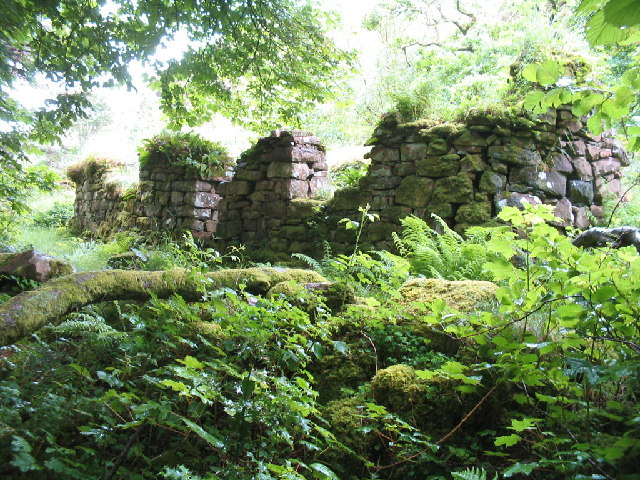 Abandoned houses. Most of Rum was cleared in 1826.